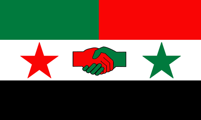 Flag representing peace efforts between the two opposing sides in the Syrian Civil War. The design combines that of the Syrian Arab Republic and the Syrian opposition.